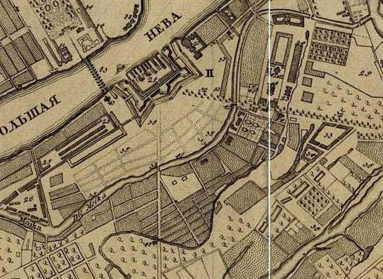 Location of territory of future Isaak square on the 1737 year map